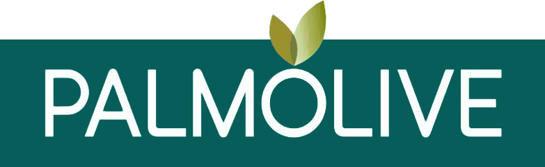 Palmolive new logo